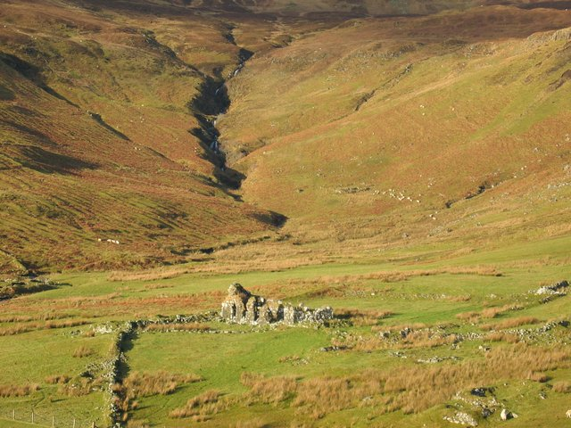 The tenant farmer's house, Tusdale Tusdale, two miles from the closest road or current population, has the remains of dozens of buildings abandoned since the clearances. This is the biggest ruin in the valley. It was the house of the tenant sheep farmer for whom the rest of the people were cleared. This was once a well-populated place. South-facing, well-sheltered and with a wide expanse of green and fertile ground, it is easy to see why. Today only a few sheep roam among the ruins. For directions to walk here